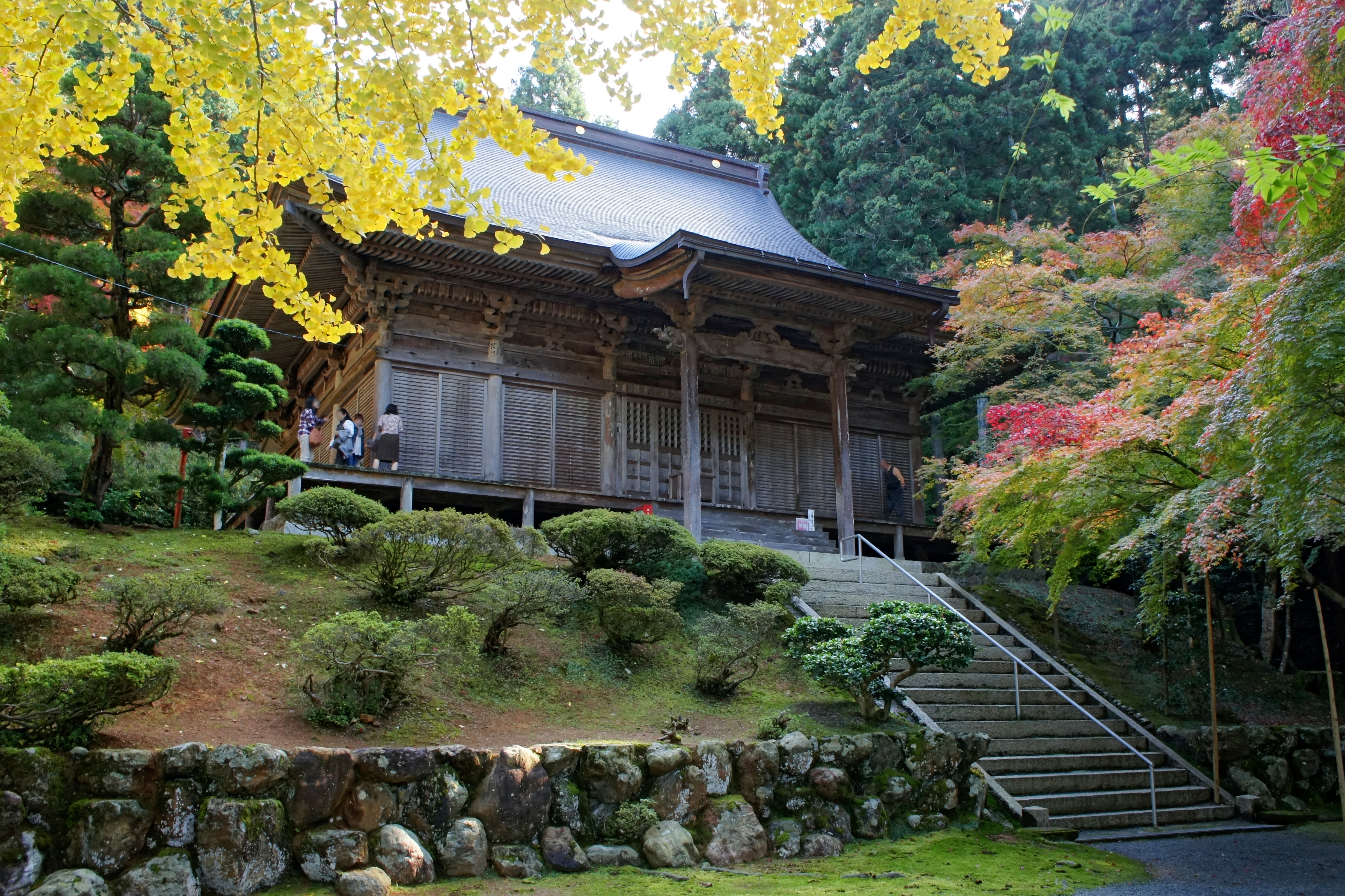 Mantoku-ji in Obama, Fukui prefecture, Japan.